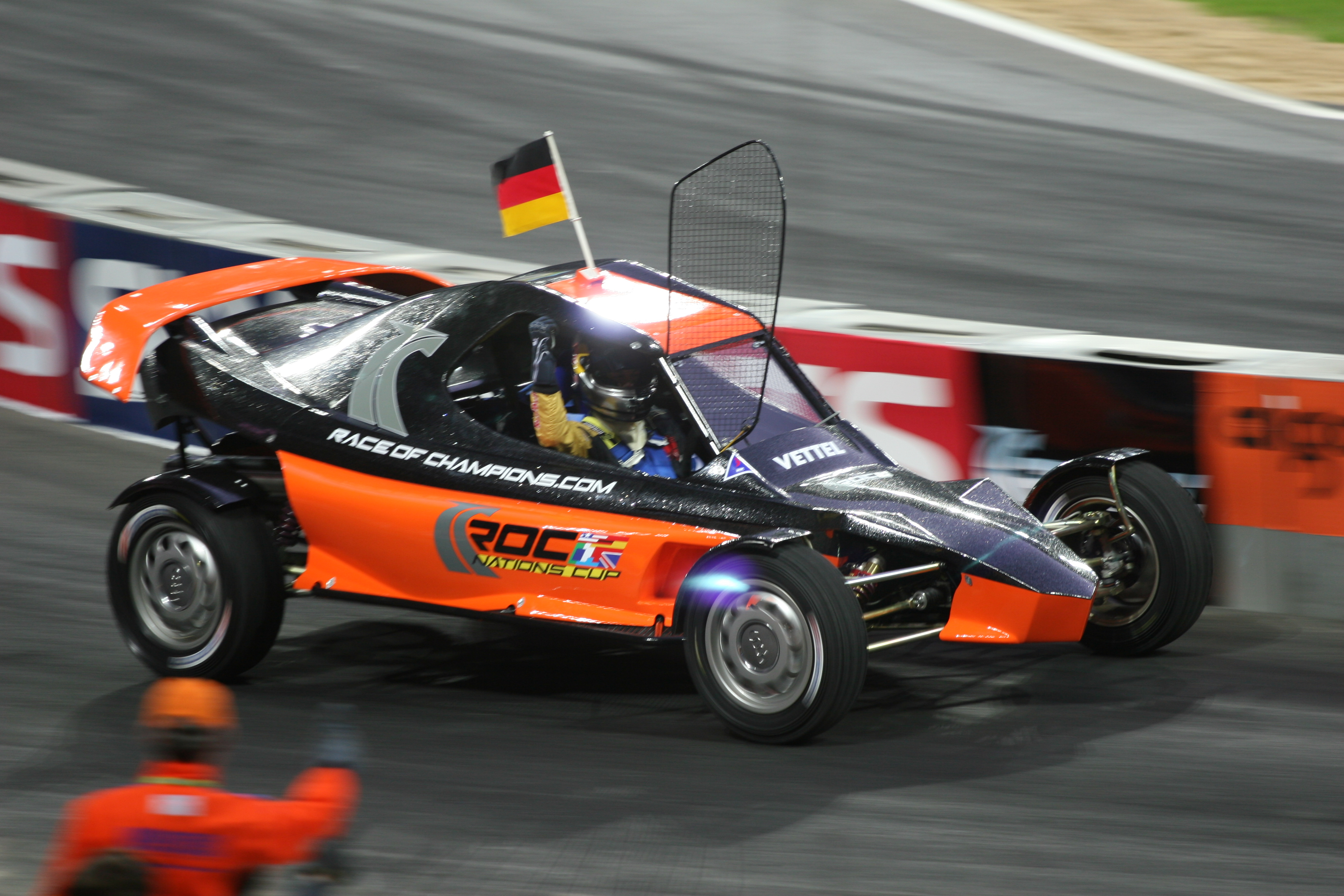 Sebastian Vettel driving the ROC car at the 2007 Race of Champions at Wembley Stadium.